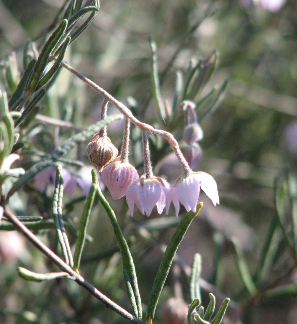 Guichenotia ledifolia, Maranoa Gardens, Balwyn, Victoria, Australia